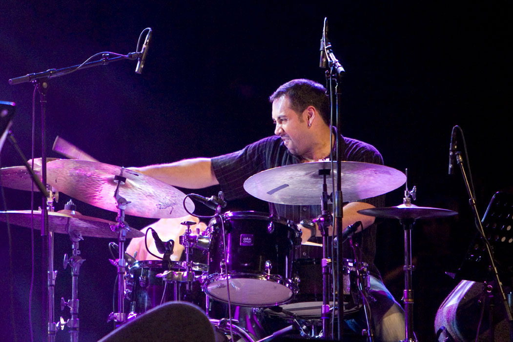 Drummer Antonio Sanchez (The Joshua Redman Trio)